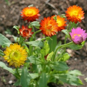 flower